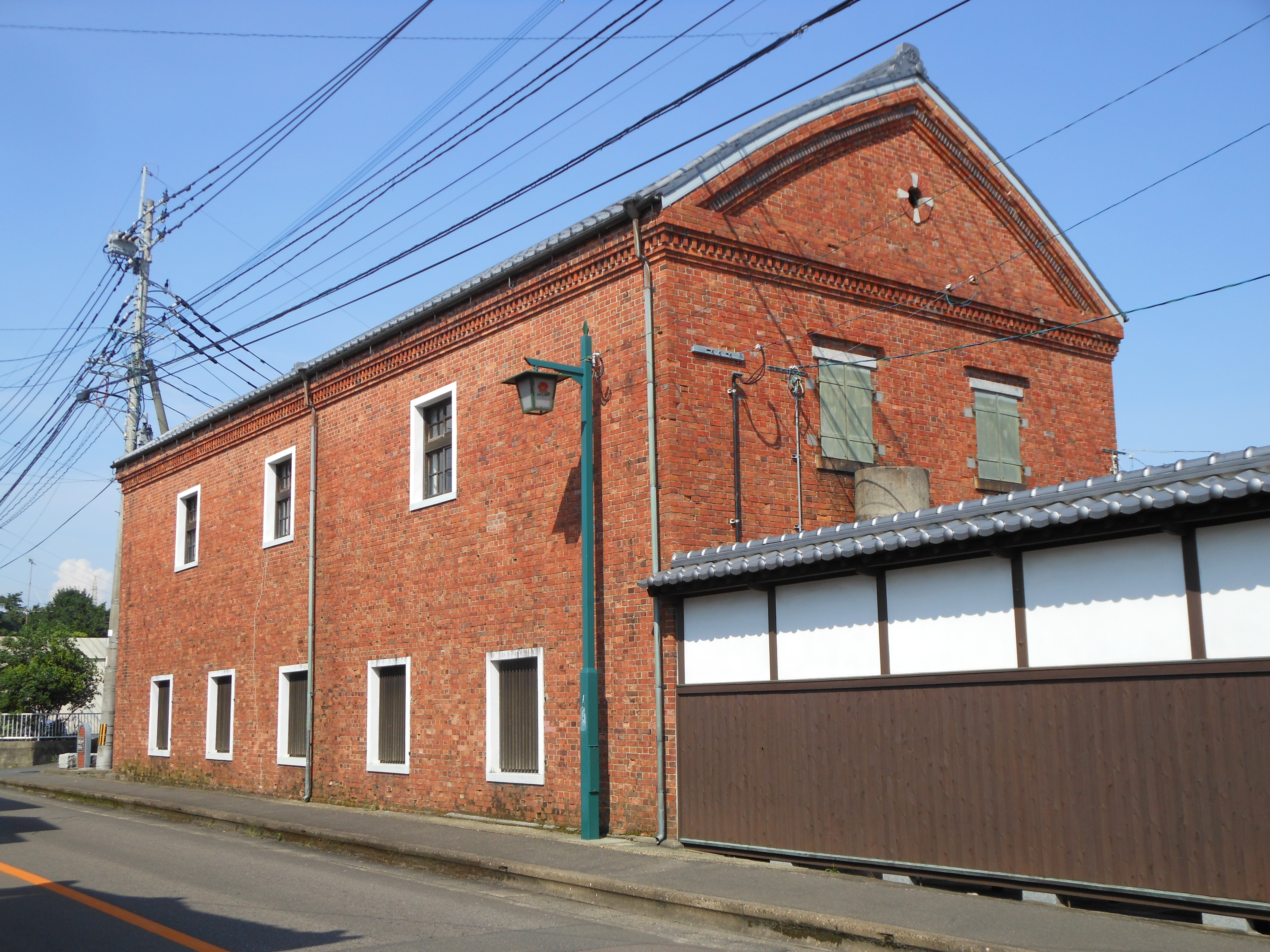 Ushizu Historical Brick Warehouse, in Ushizu-cho, Ogi city, Saga prefecture.